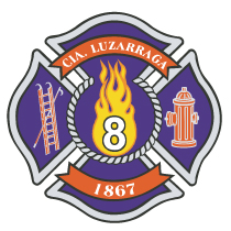 Escudo de la 8va Brigada que lleva el nombre de su primer benefactor Manuel Antonio de Luzárraga y Echezurria